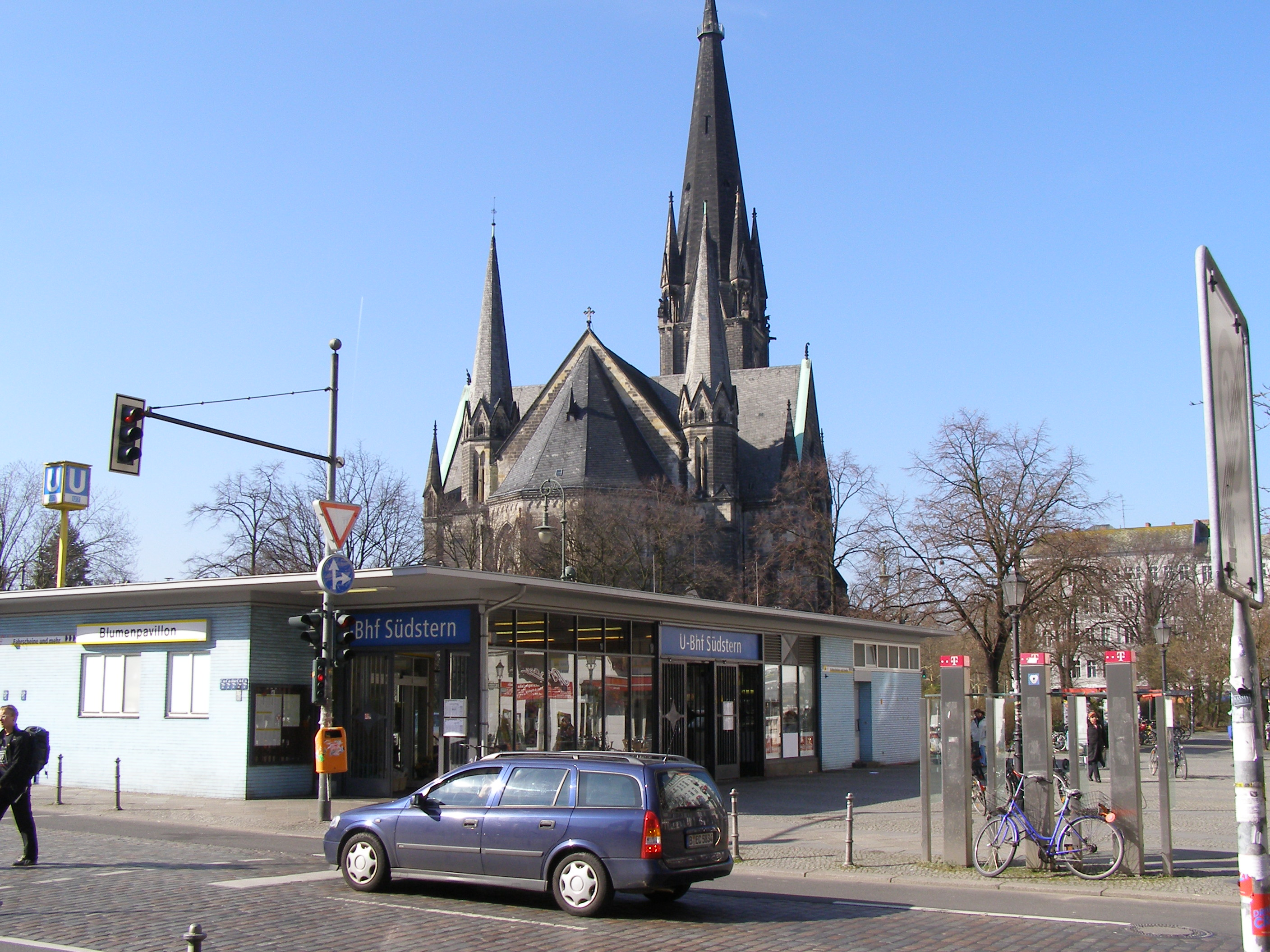 Südstern square in Berlin-Kreuzberg. In the foreground, entrance to Südstern underground station, in the background the church "Kirche am Südstern